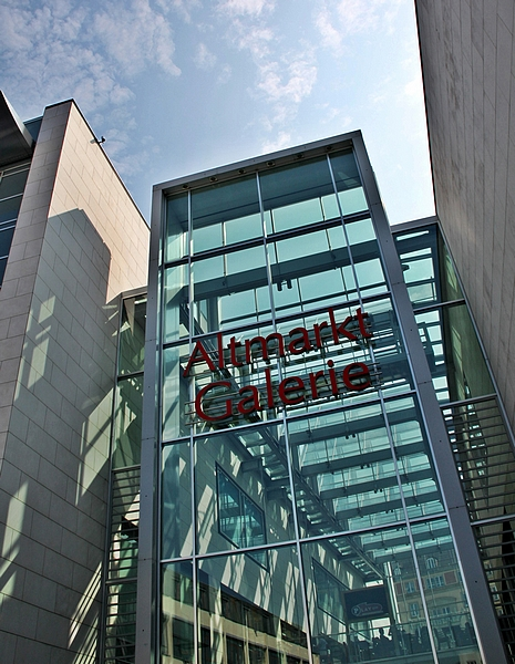 Dresden: entrance of the shopping mall "Altmarkt-Galerie".